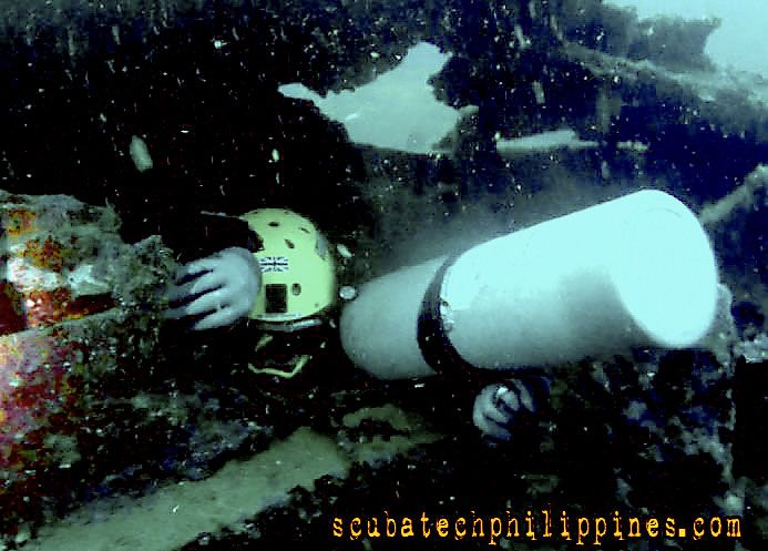 An advanced sidemount diver conducting overhead penetration in a shipwreck, using multiple stages and passing tight restrictions.